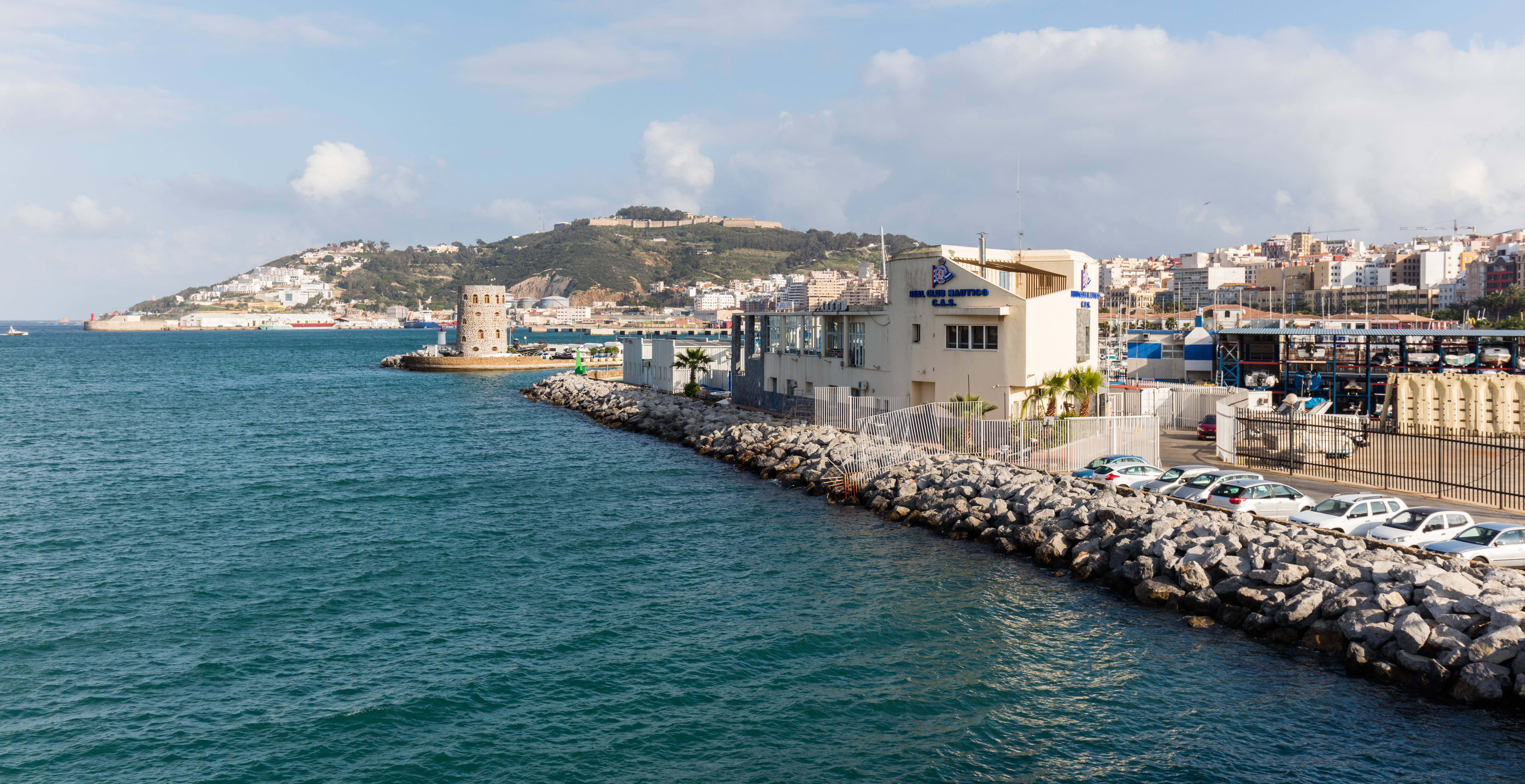 Coast of Ceuta, Spain